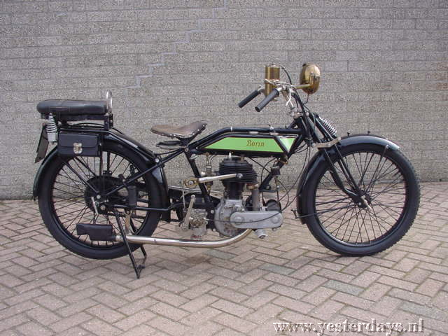 Toestemming van Yesterdays Antique Motorcycles categorie:afbeelding motorfiets